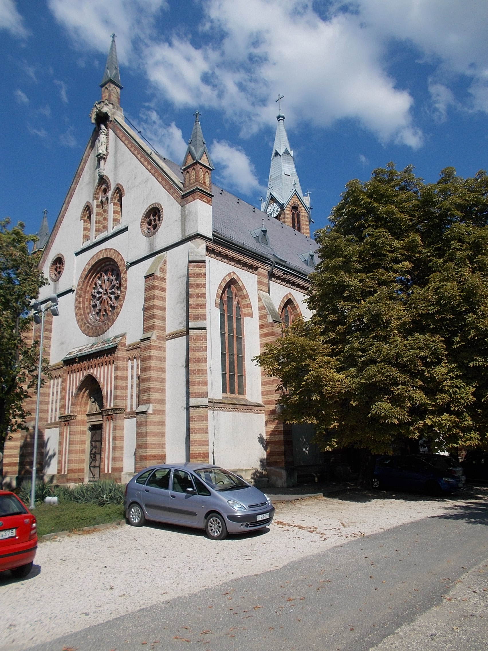 Saint Michael Church (official. Church of Archangel Michael, local called Ujvaros Church). - Pazmany Square, Ujvaros neighborhood, Szekszárd, Tolna County, Hungary.